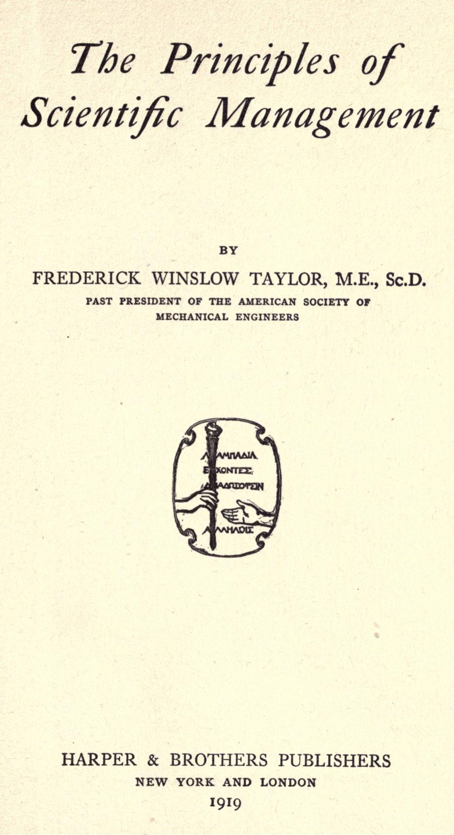 The Principles of Scientific Management, title page